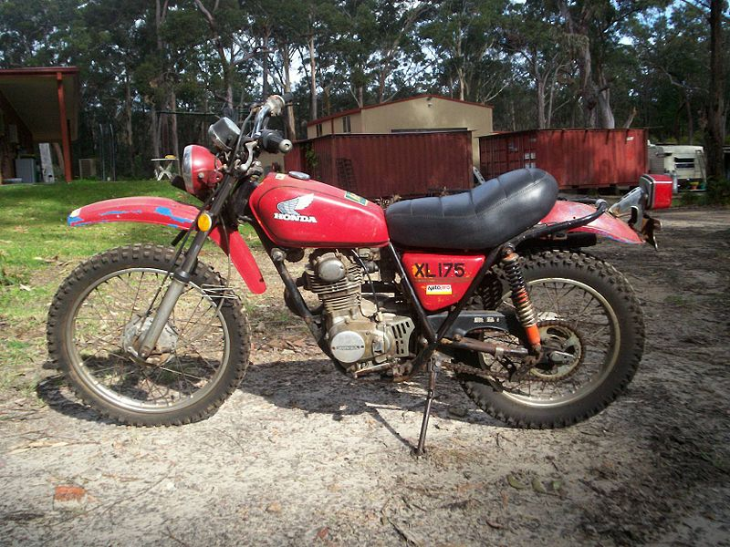 1976 Honda XL175 - Shown in 'Fire Red' (not original paint job)